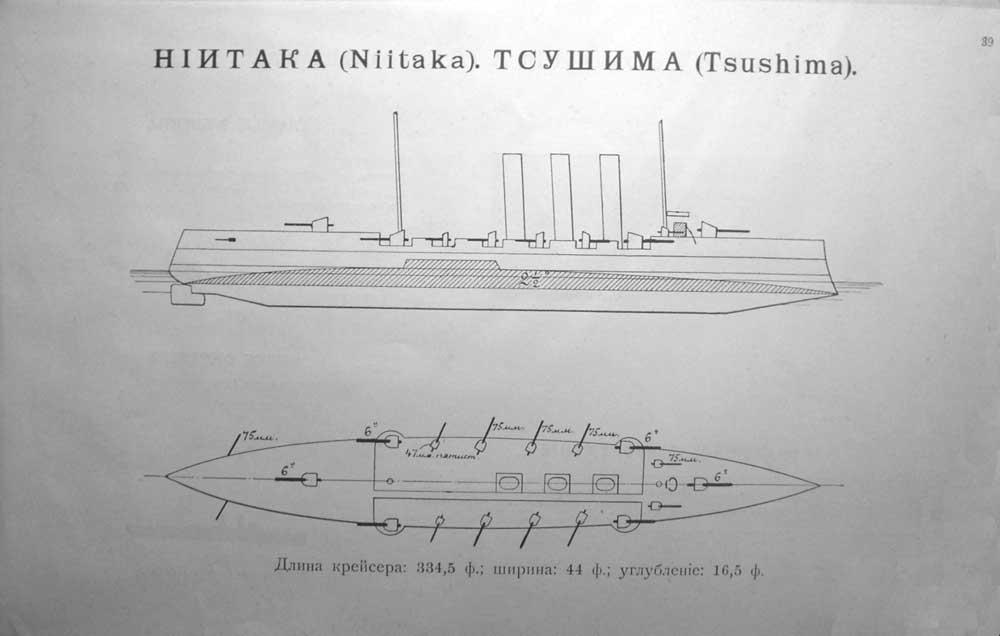 IJN Niitaka Tsushima